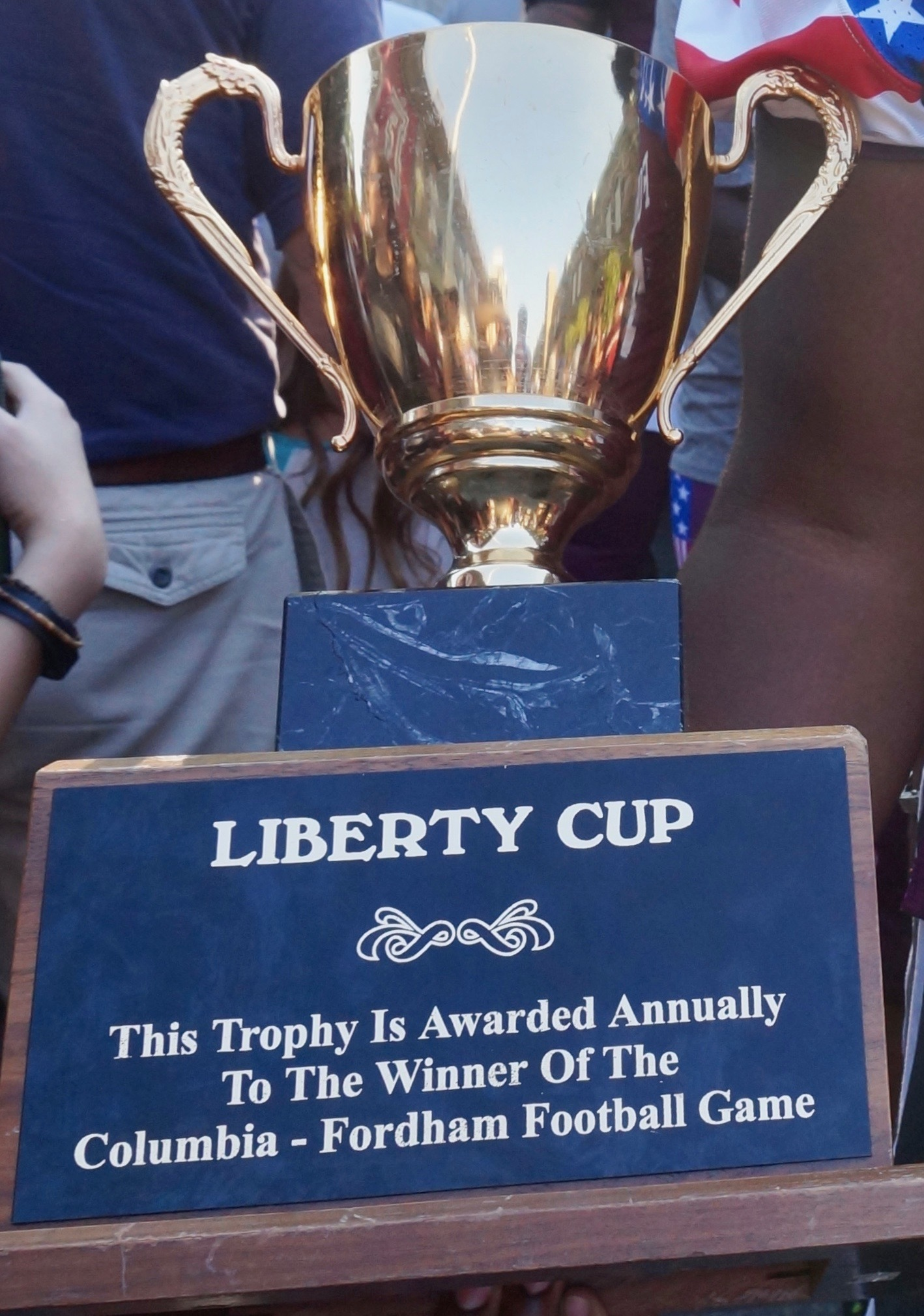 Fordham taking home the 2015 Liberty Cup outside of Jack Coffey Field.